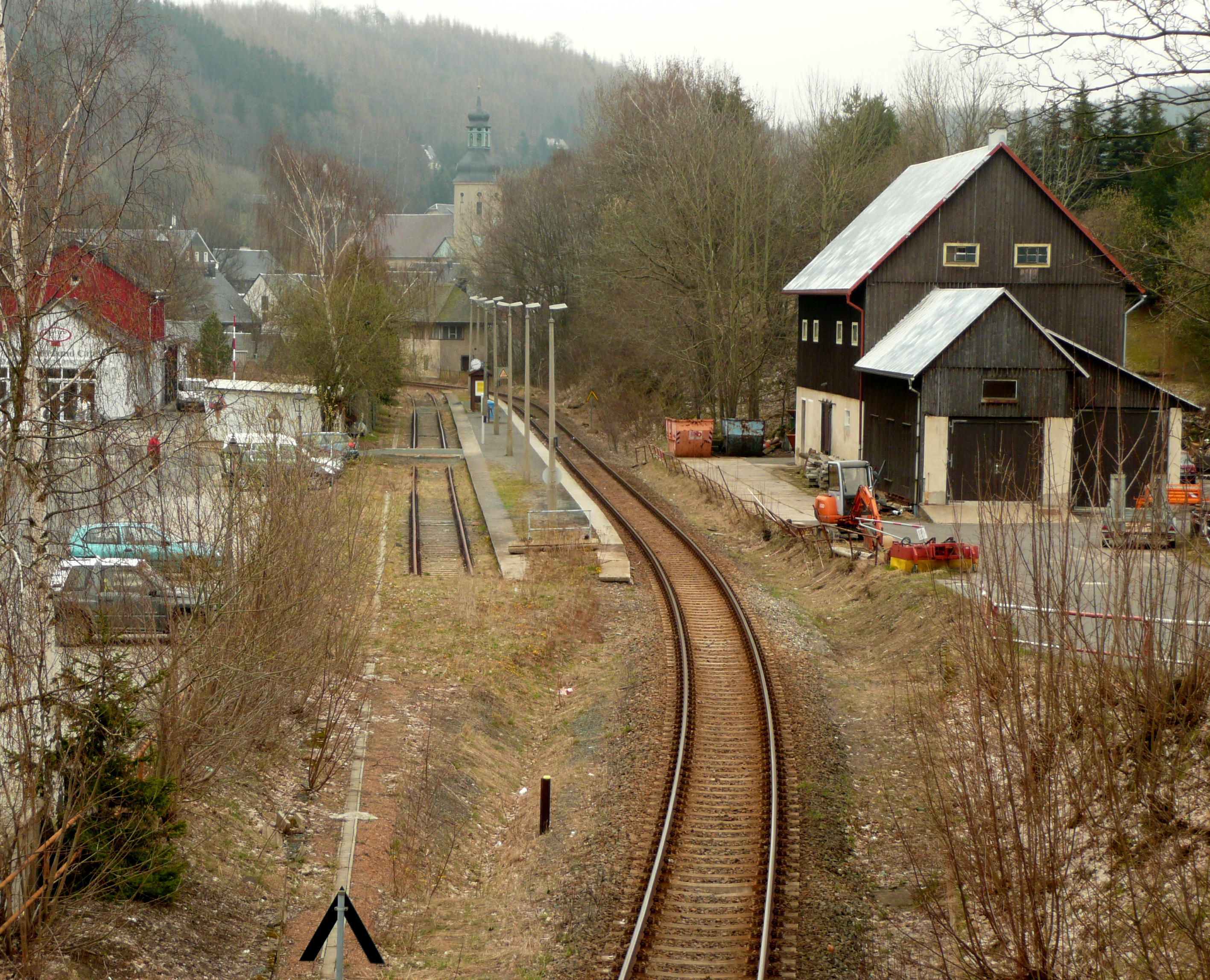 This image shows the station in Geising (Müglitz Valley Railway)